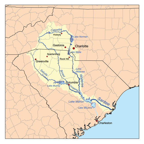 This is a map of the Santee River watershed. I, Karl Musser, created it based on USGS data.